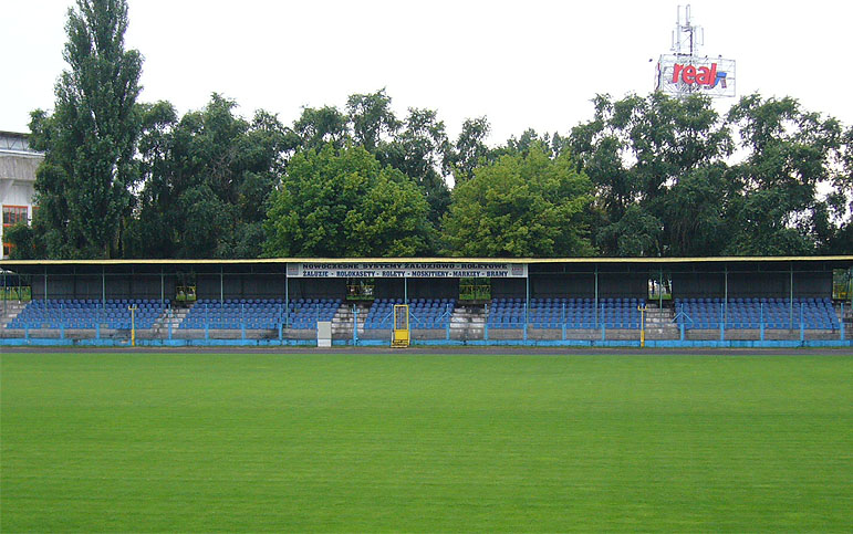 Stadion OSiR